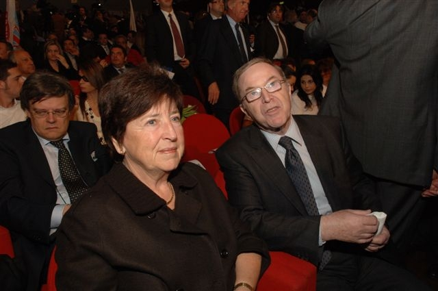 President Martens in Italy UDC